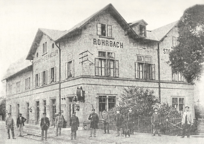 The railway station Rohrbach-Steinweiler in 1895